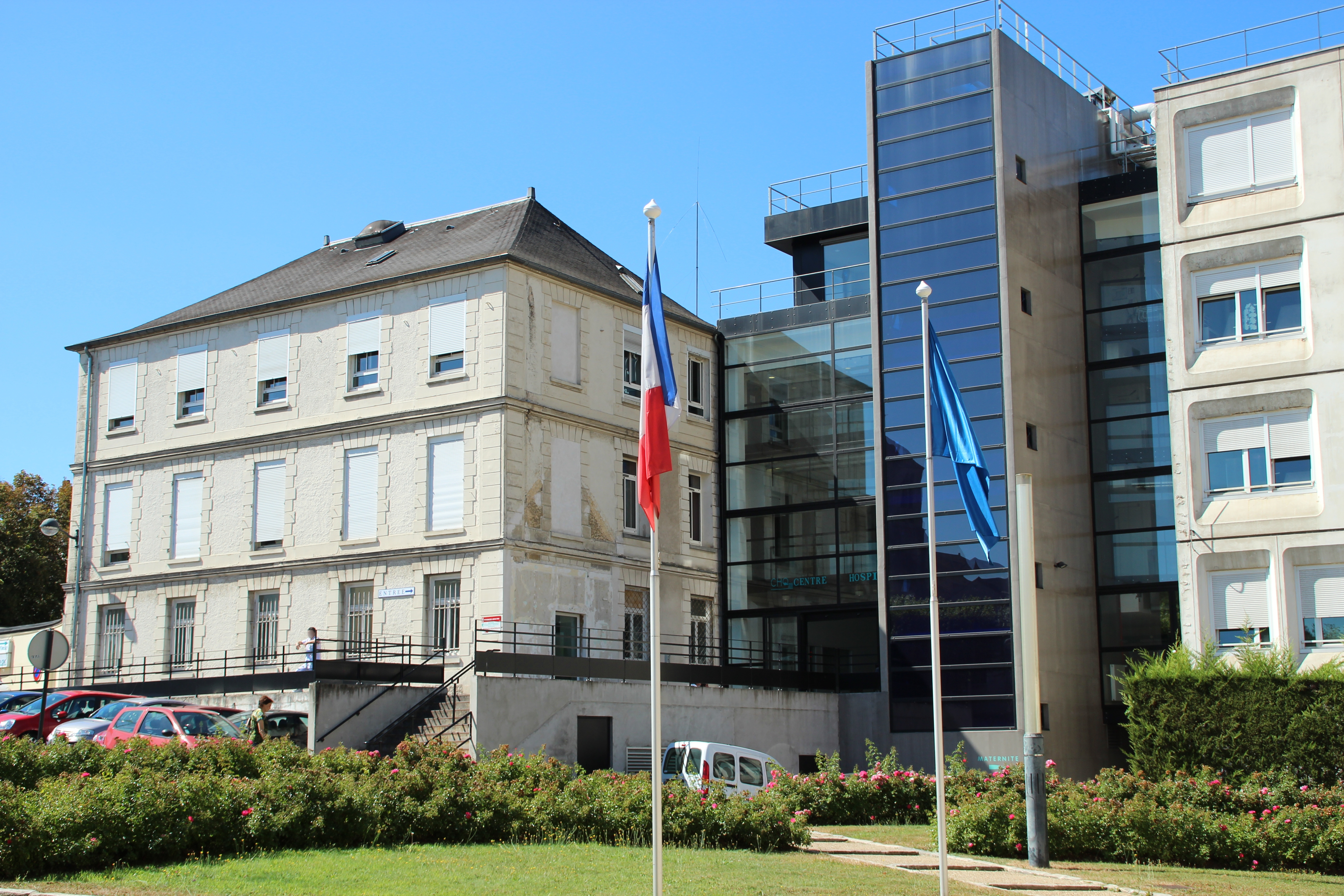 Hospital Centre Hospitalier d'Orsay in the city of Orsay, France.